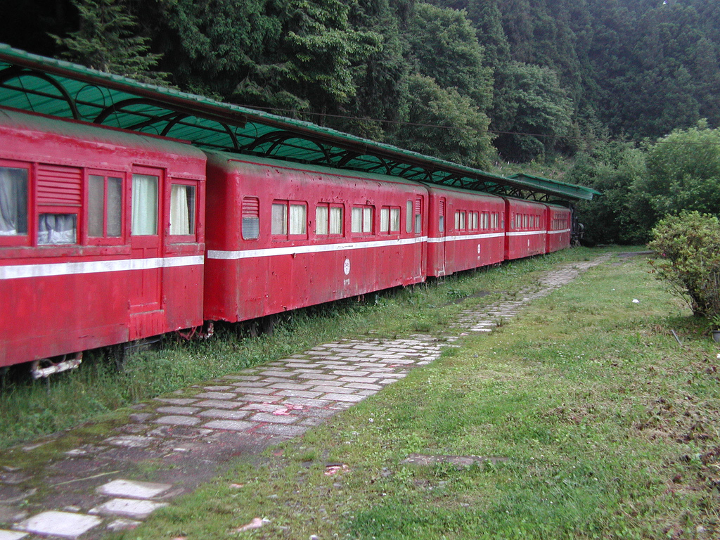 Alishan Forest Railway Train Hotel at Chaoping Station 阿里山森林鐵路沼平車站前 火車旅館